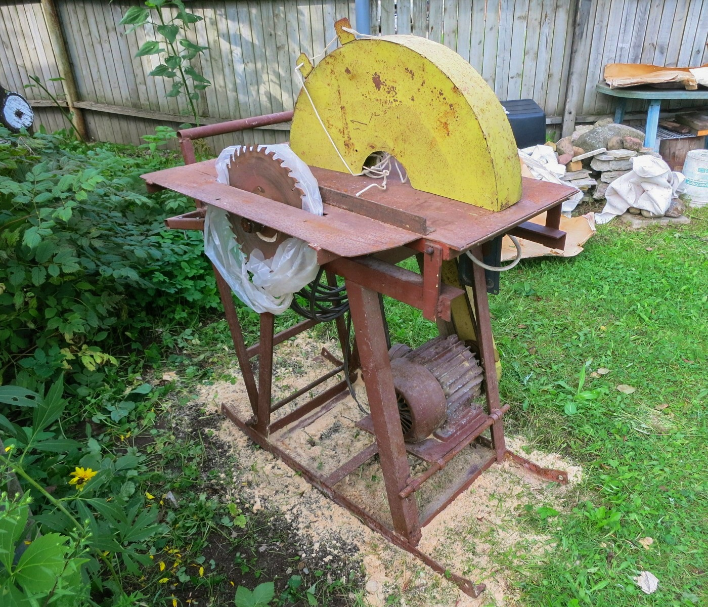 Self-made circular saw for wood. Such kind of saws were very popular in Estonia at the second half of last century.